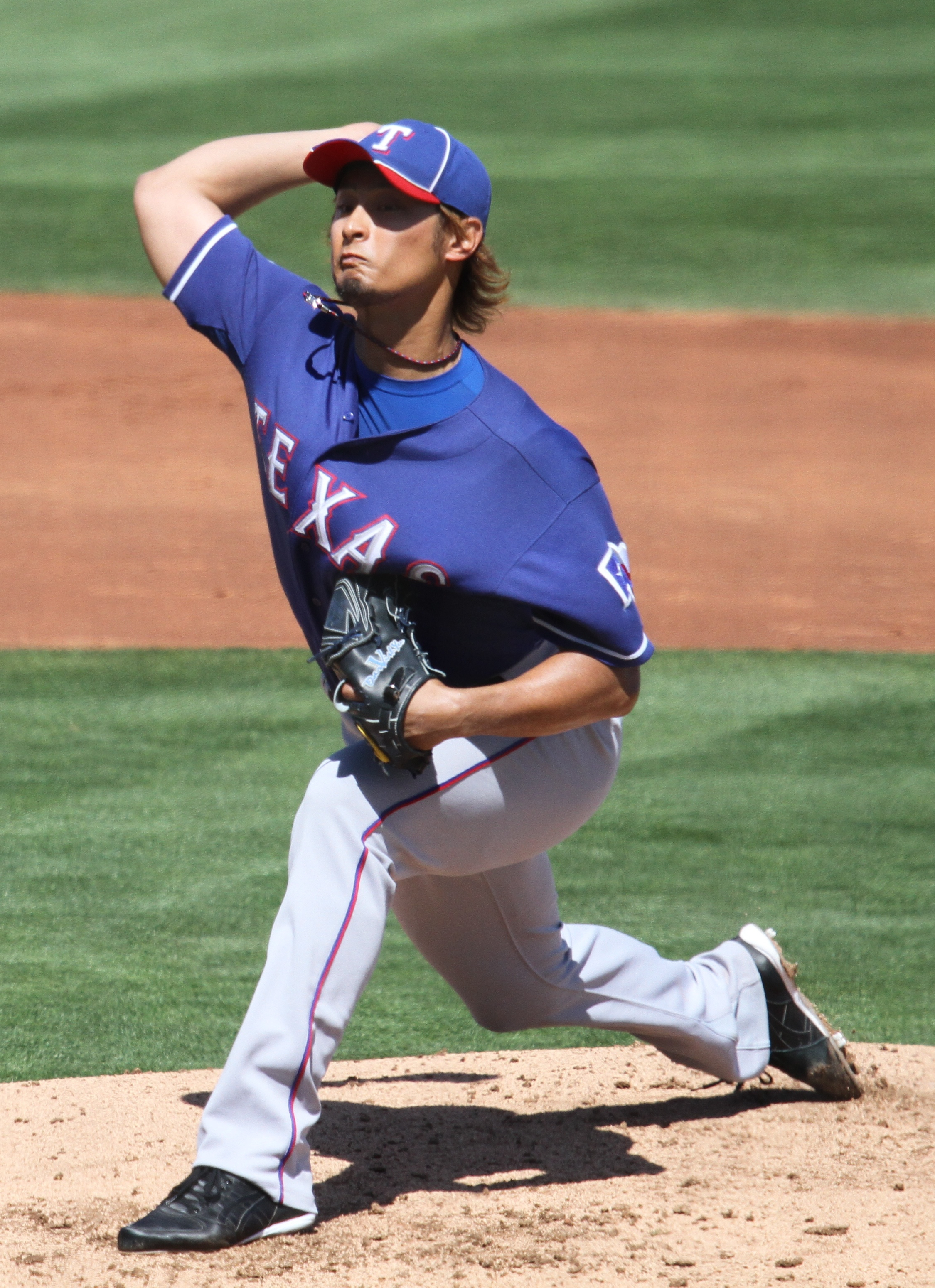 Yu Darvish